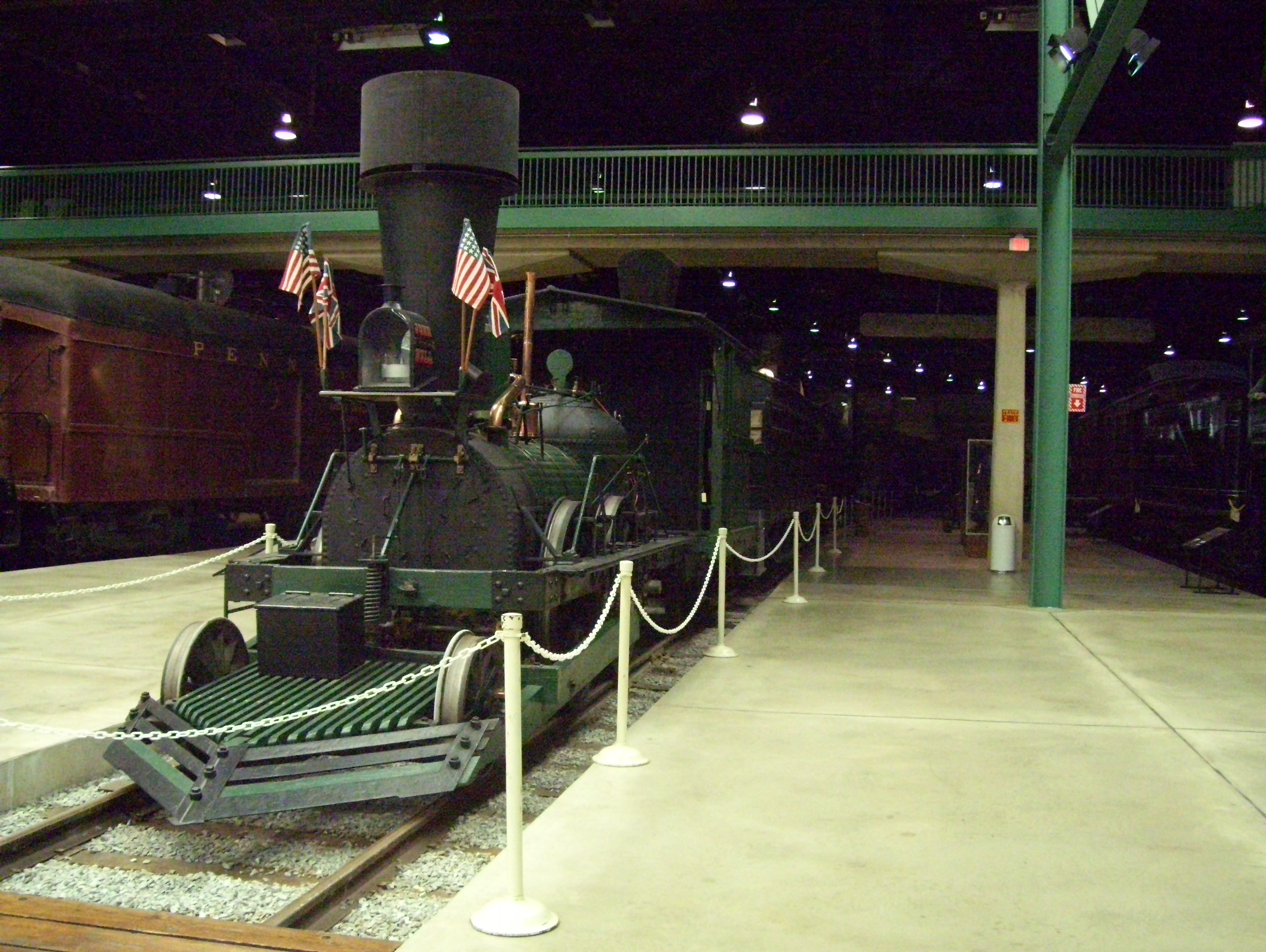 John Bull Repilca at the Railroad Museum of Pennsylvania.